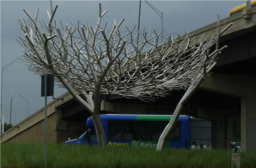 The Bird's Nest at the Hobby Airport Entrance.